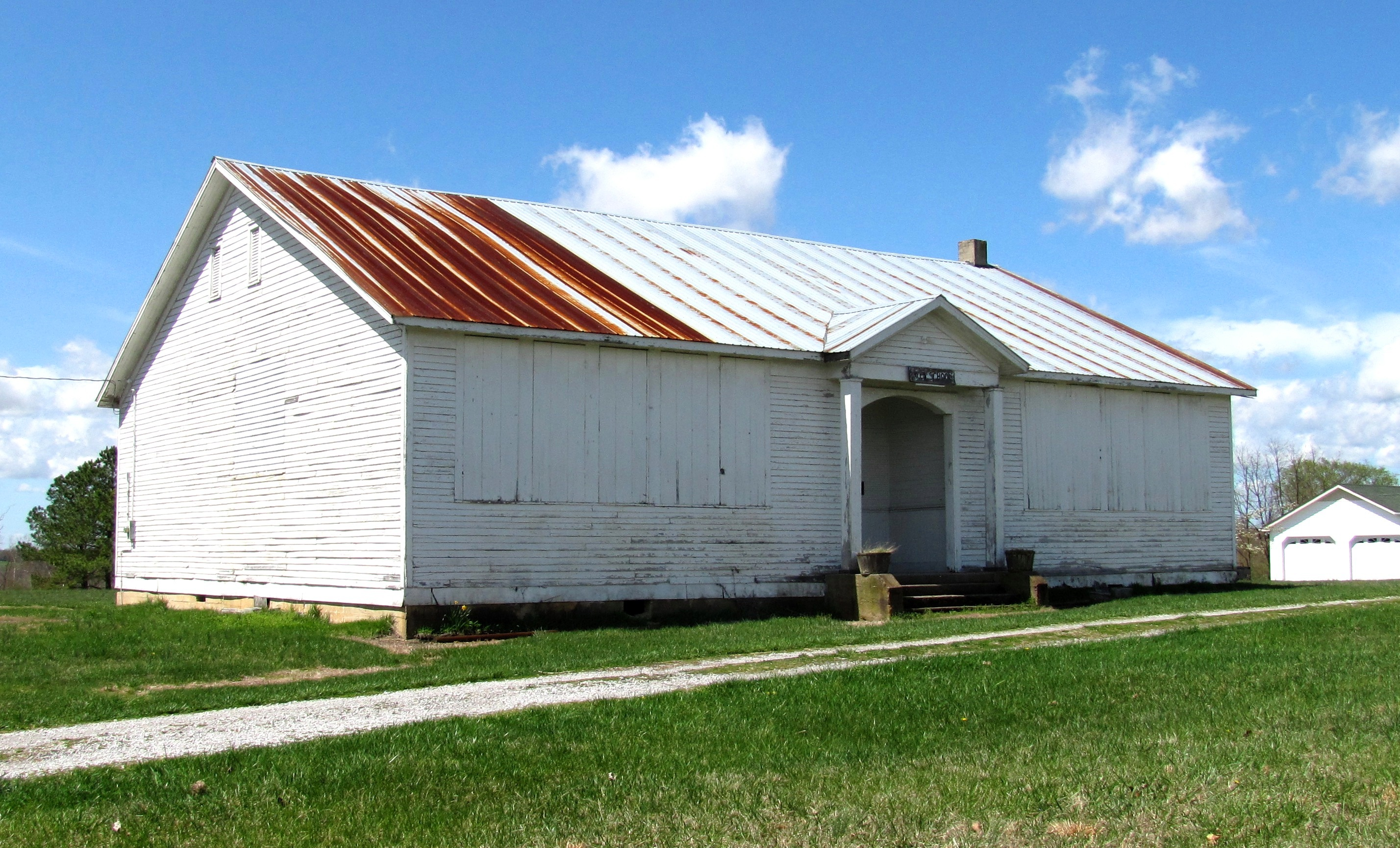 The NRHP-listed Galen Elementary School, located in the Galen community (north of Lafayette) in Macon County, Tennessee, USA.